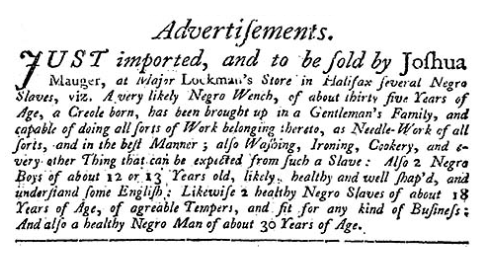 Sale of a woman (age 35), two boys (ages 12 and 13), two male teenagers (ages 18), and a man (age 30). This advertisement shows that Halifax took part in the Atlantic coastal slave trade. The slaves for sale had just been imported from the West Indies by merchant Joshua Mauger.